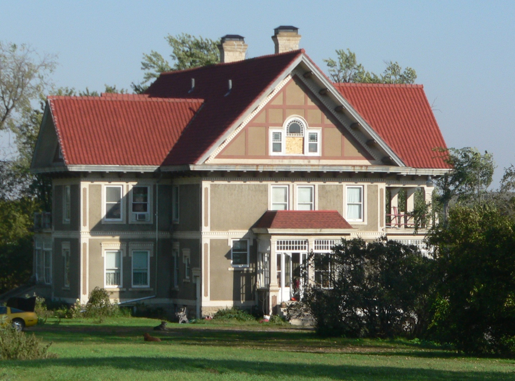 F. P. Baker house, located at 48113 SD Highway 48 in rural Union County, South Dakota; seen from the west, from county road 481st Ave.